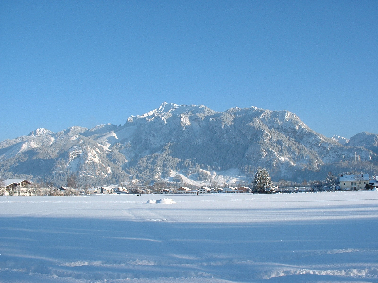 Tegelberg im Winter Fotografiert am 01.02.2003 Fotograf: Robert Böck EXIF-Daten (Auszug): Marke - FUJIFILM Model - FinePix2600Zoom Software - Digital Camera FinePix2600Zoom Ver3.00 DateTime - 2003:02:01 15:52:40 YCbCrPositioning - 2 (datum point) ISOSpeedRatings - 100 ExifVersion - 210 DateTimeOriginal - 2003:02:01 15:52:40 DateTimeDigitized - 2003:02:01 15:52:40 ComponentsConfiguration - 1 2 3 (YCbCr) CompressedBitsPerPixel - 1.6000 (average) ShutterSpeedValue - 1/125 seconds ApertureValue - F 8.57 BrightnessValue - 8.7600 ExposureBiasValue - 0.0000 MaxApertureValue - F 3.48 MeteringMode - 5 (multi-segment) Flash - 0 (no flash) FocalLength - 6.0000 mm ColorSpace - 1 (sRGB) Copyright Status: GNU Freie Dokumentationslizenz